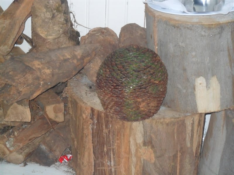 Pine 02